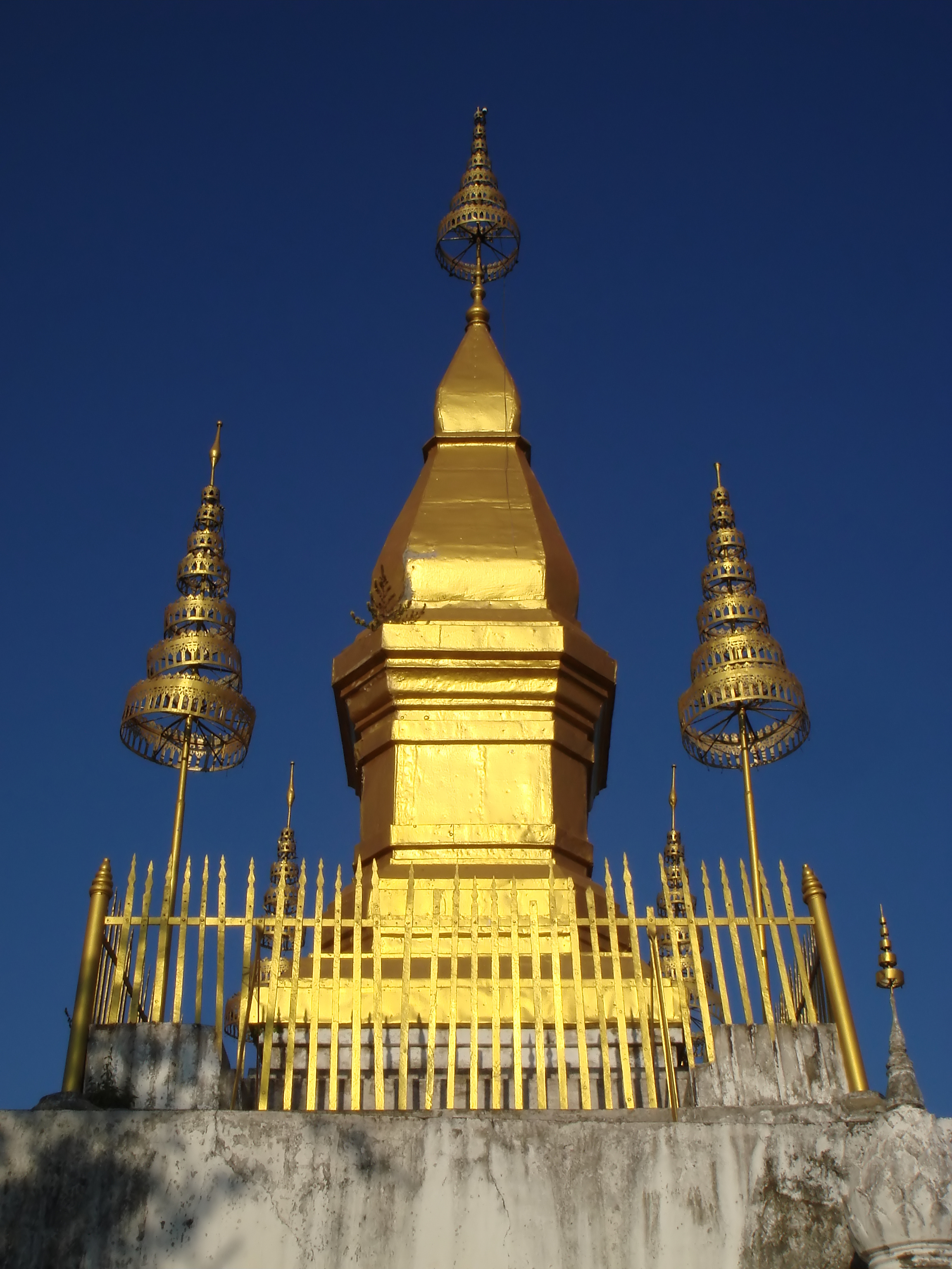 Stupa That Chomsi in Luang Prabang (Laos).